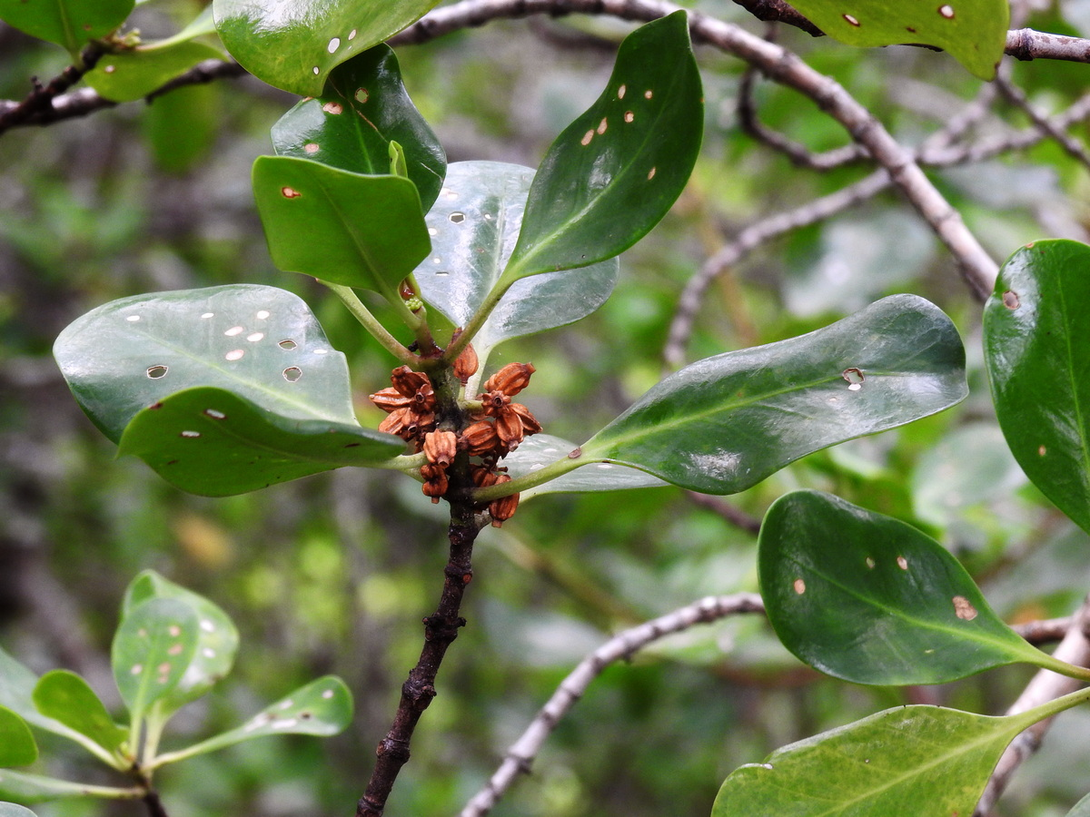 Scyphiphora hydrophylacea; fruiting twig, with mature, dried fruit. From Sukadana, North Kayong Regency, West Kalimantan, Indonesia.